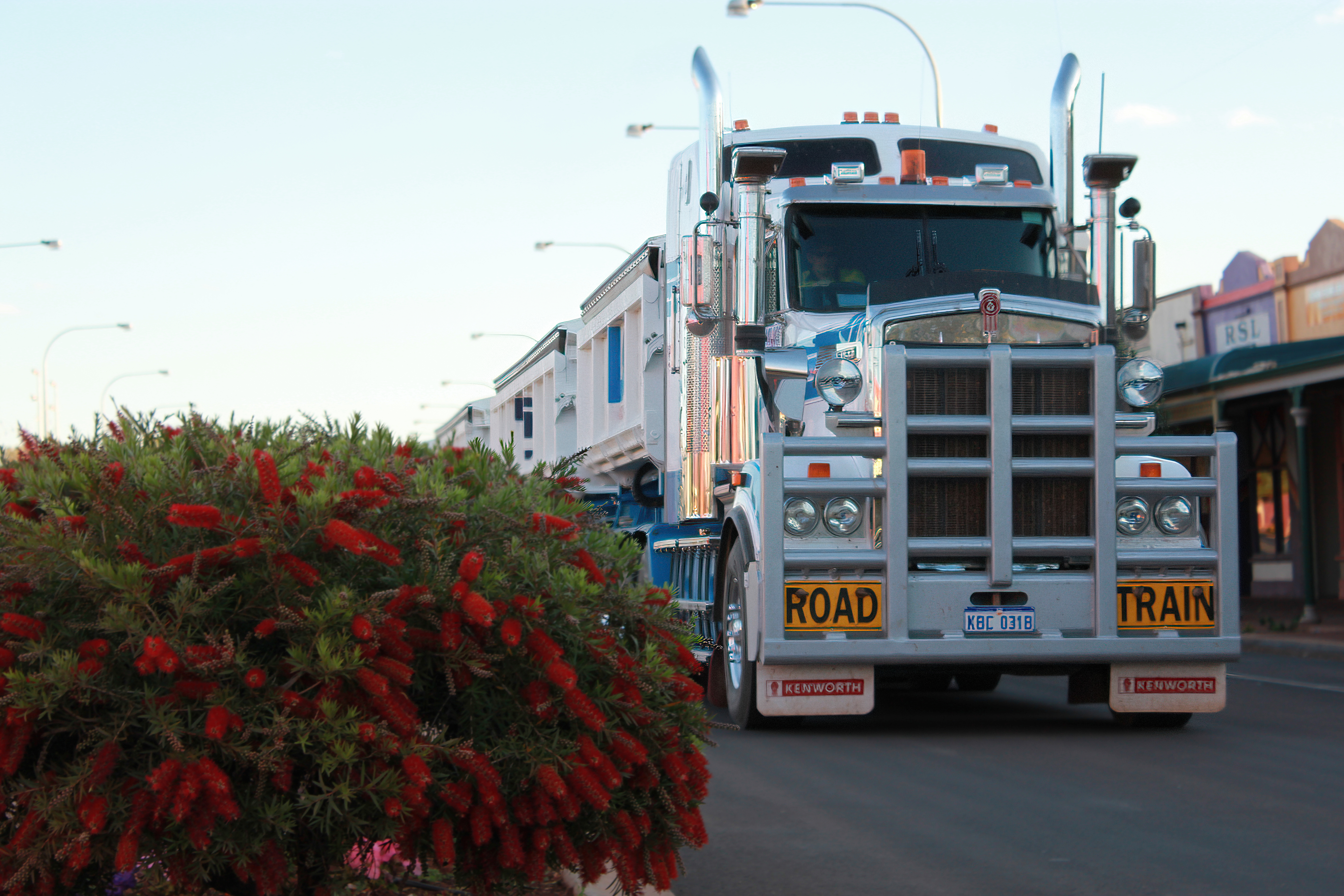 These things are absolutely HUGE. They're over 50 metres long and make a massive massive noise!